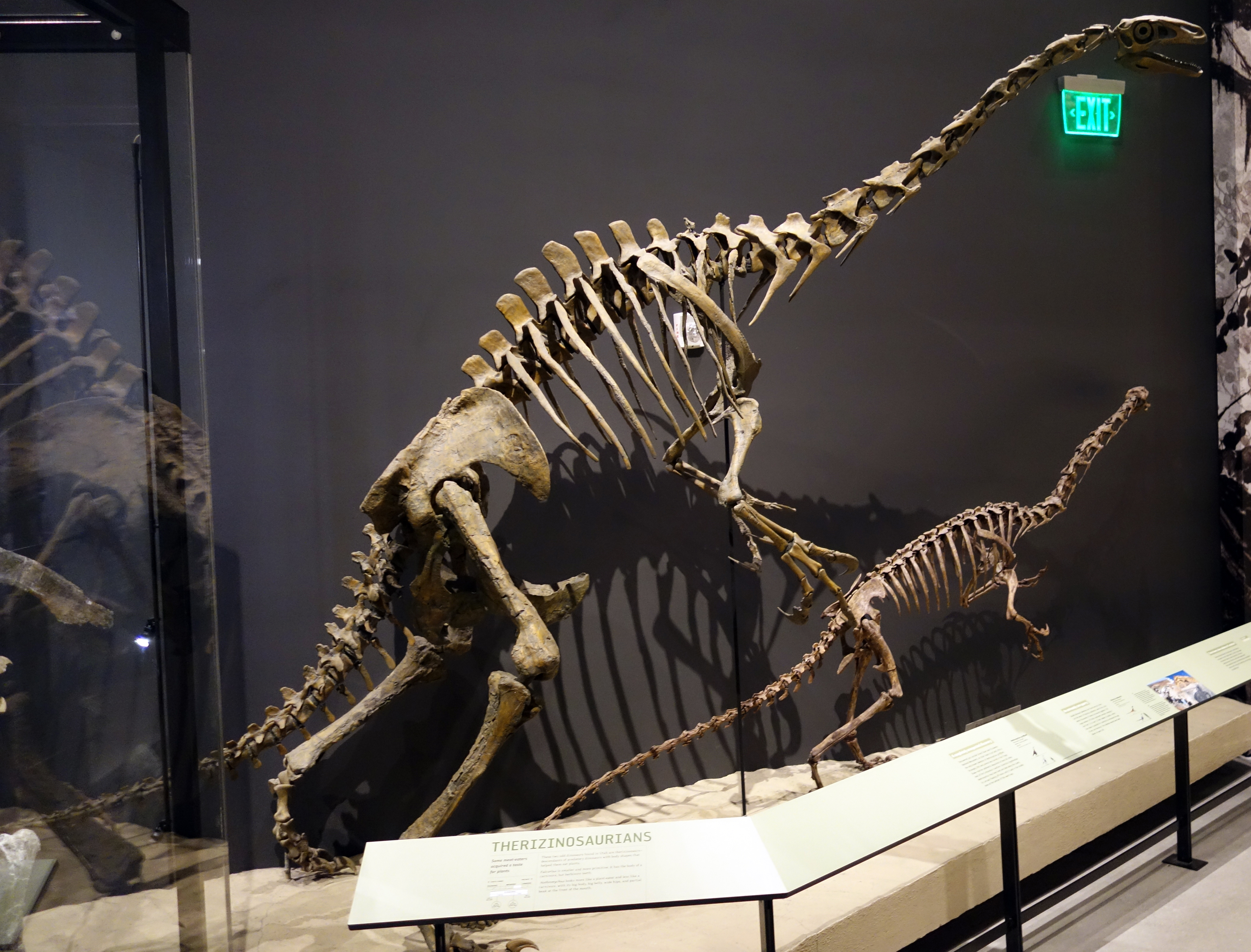 Nothronychus graffami and Falcarius skeletal mounts, on display at the Natural History Museum of Utah, Salt Lake City.